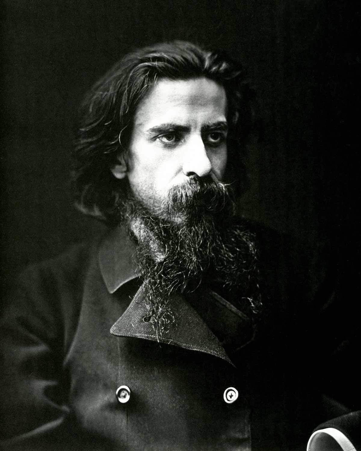 Portrait of Vladimir Solovyov